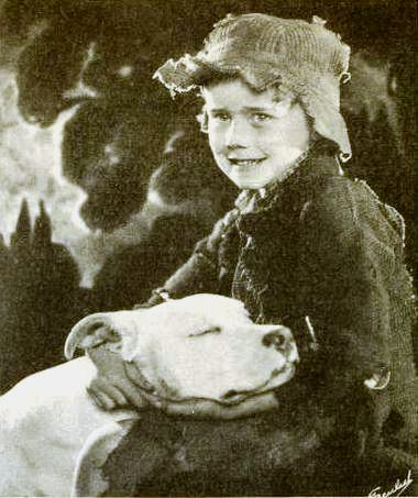 Child actor B. Reeves Eason, Jr., picture used to report his death, on page 96 of the January 1922 Photoplay.